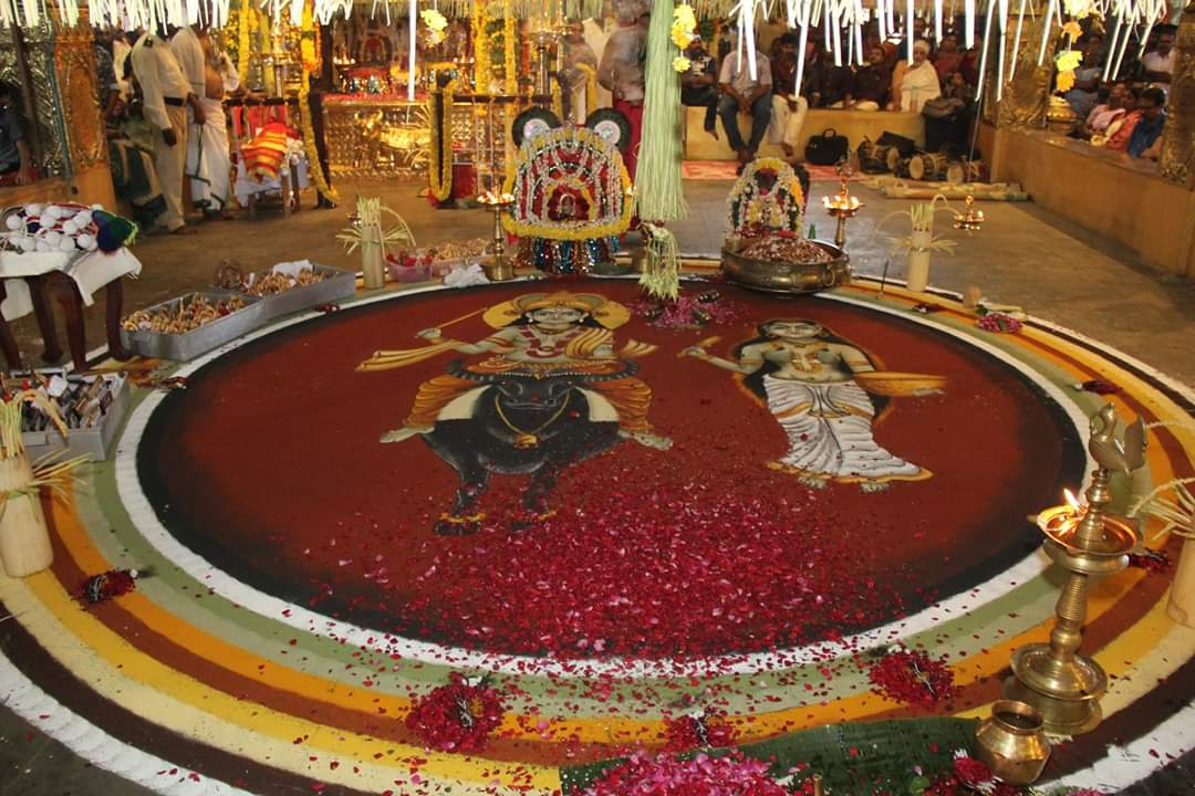 'Maharoopakkalam' is the most significant 'kalampooja' (ritual through drawn boxes) held regularly only three times in a year.It is a special ritual which depicts and celebrates the wonderful stories about the Lord by creating the image of Vishnumaya and Maya kooli va ka devi(supposed to be with Shri Parvathy's power) with powder in five colours.The size of the box ,the multicoloured powder used for making the box as well as the accompanying orchestra hold much significance.